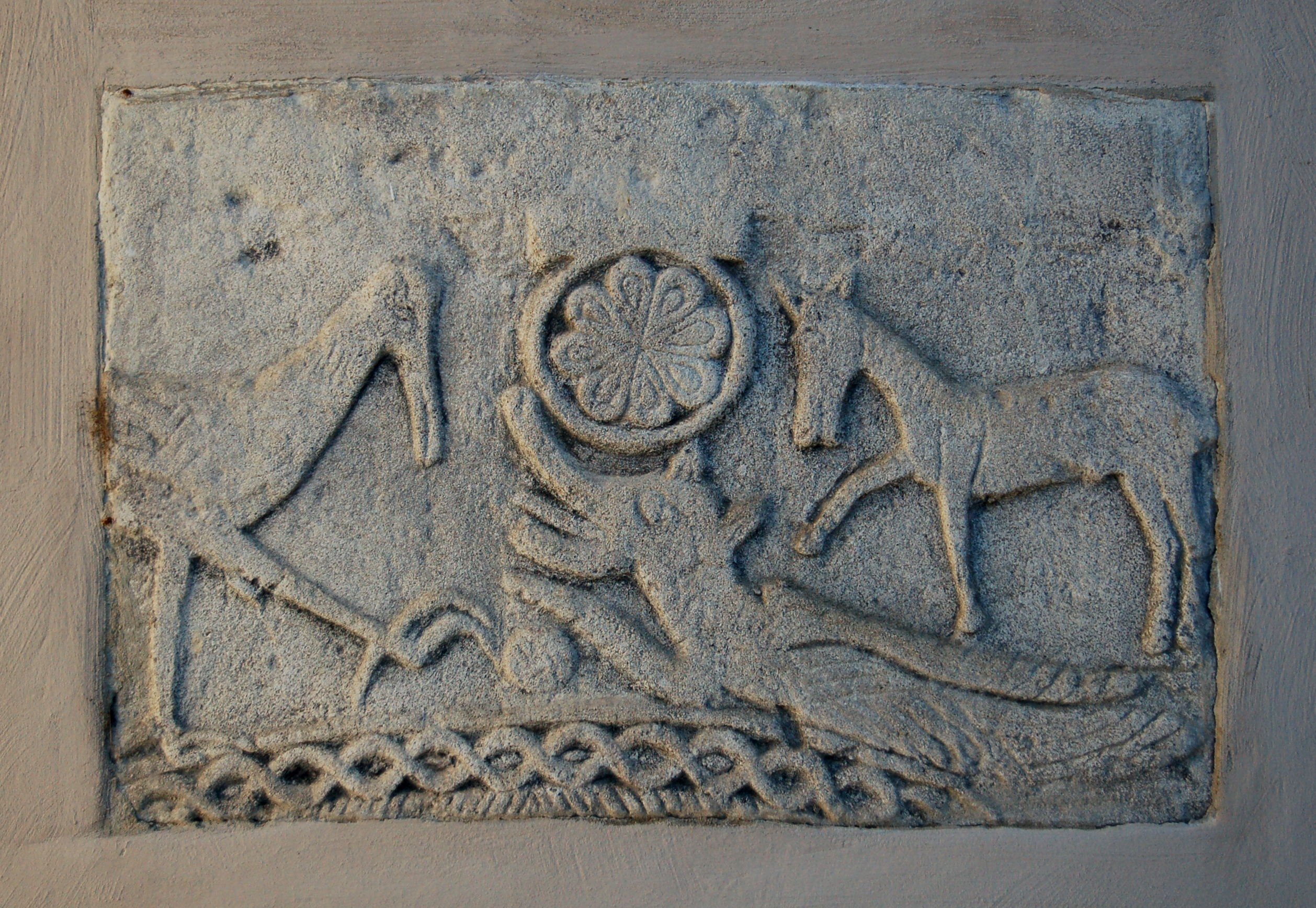 St. Peter and Paul in Weigelsdorf, municipality of Ebreichsdorf, Lower Austria. Stone relief dated to the 8th/9th century showing a dragon, a horse or a donkey and a bird. In the middle the mediterranian symbol for the sun.